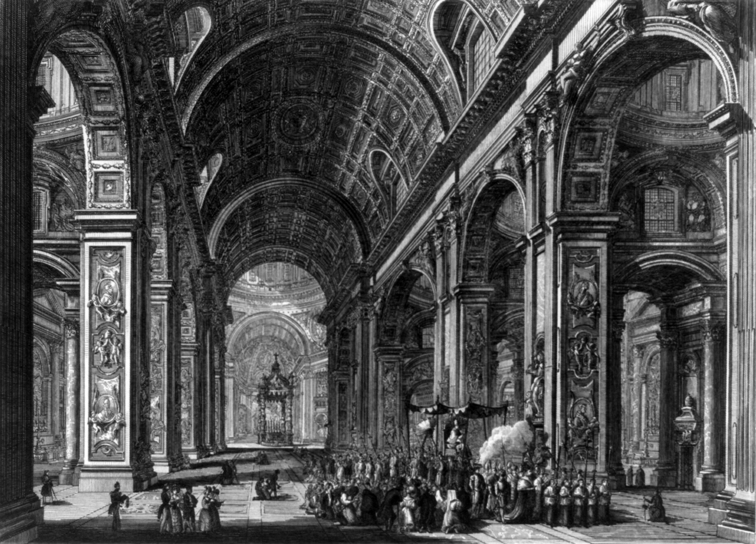 Interior of Saint Peter's Basilica showing papal procession, Vatican City. In: Vedute di Roma, 1832-1841.